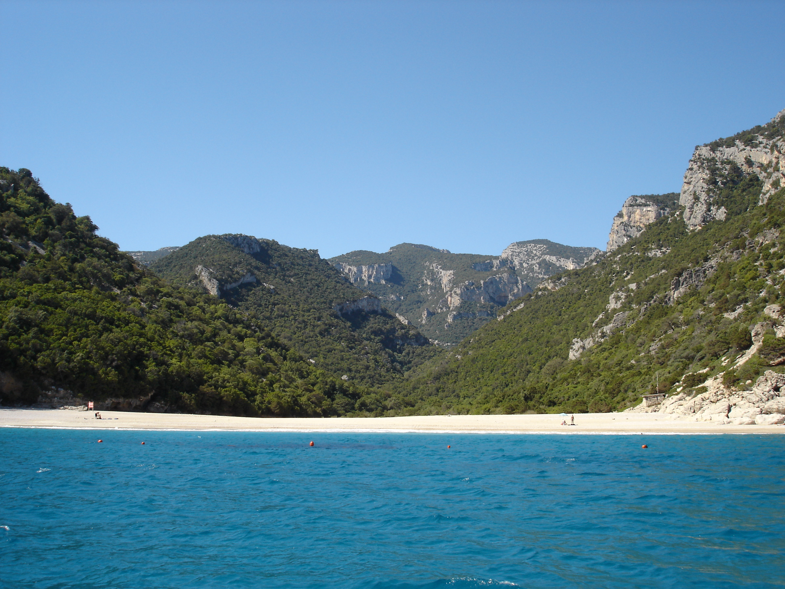 The beach called "Cala Sisine" in Sardinia, Italy